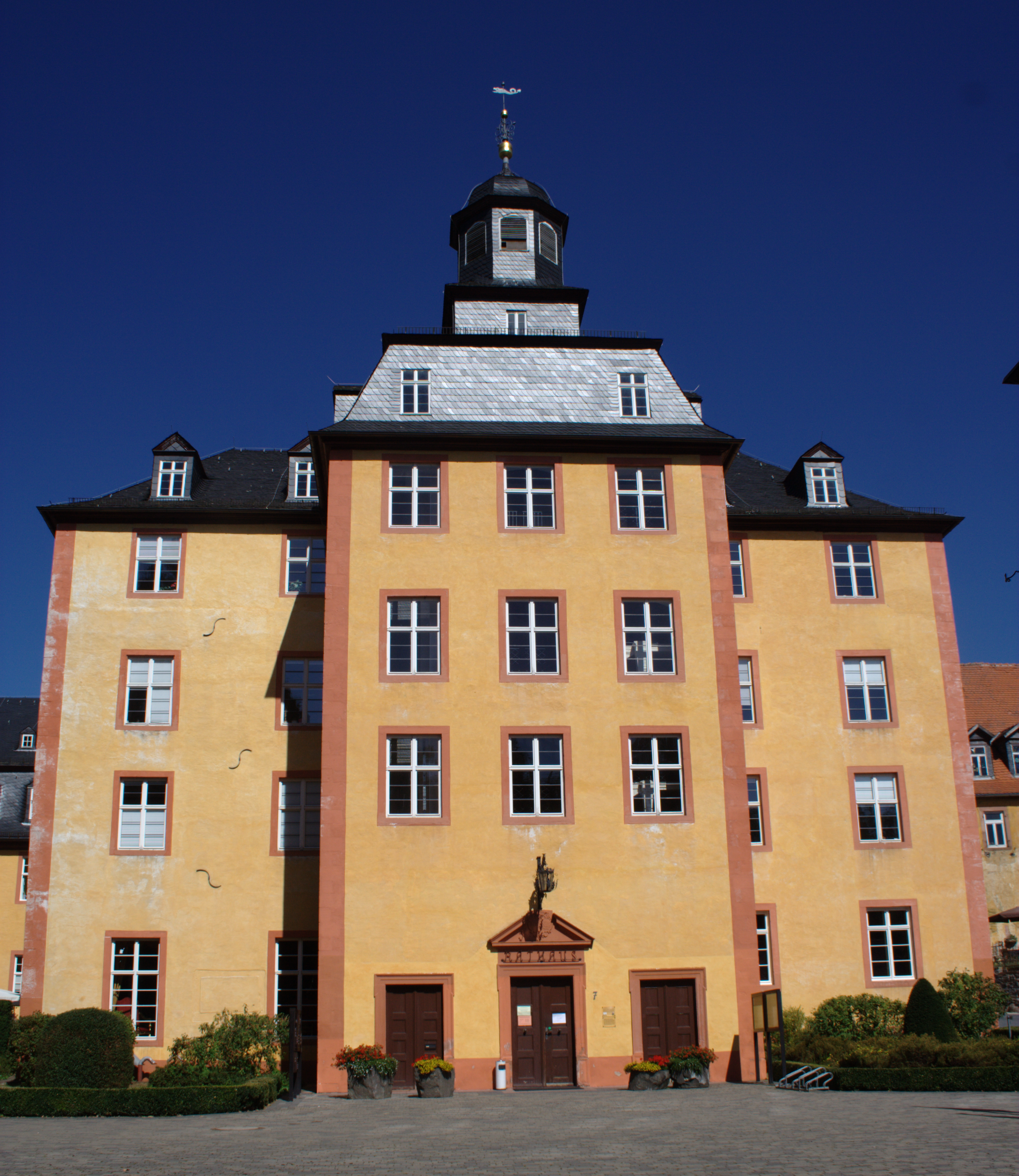 Main Building - Castle Gedern Schlossberg 7/ Hesse / GermanyThis is a photograph of an architectural monument.